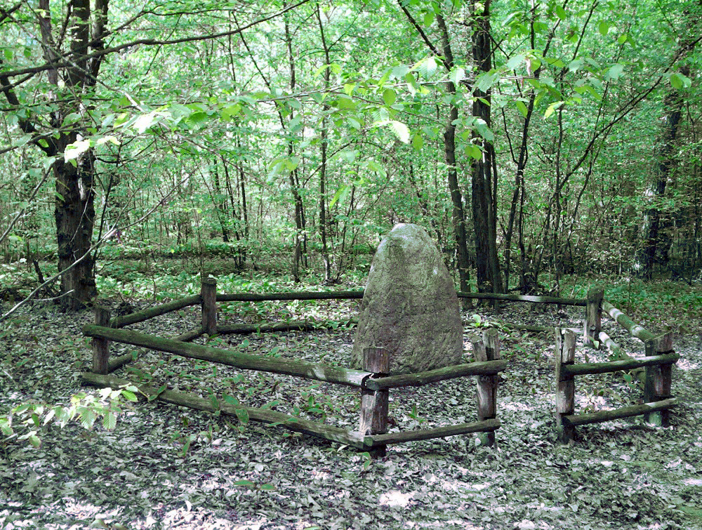 Stone-monument to professor Witold Plapis in Kampinos National Park, Poland.